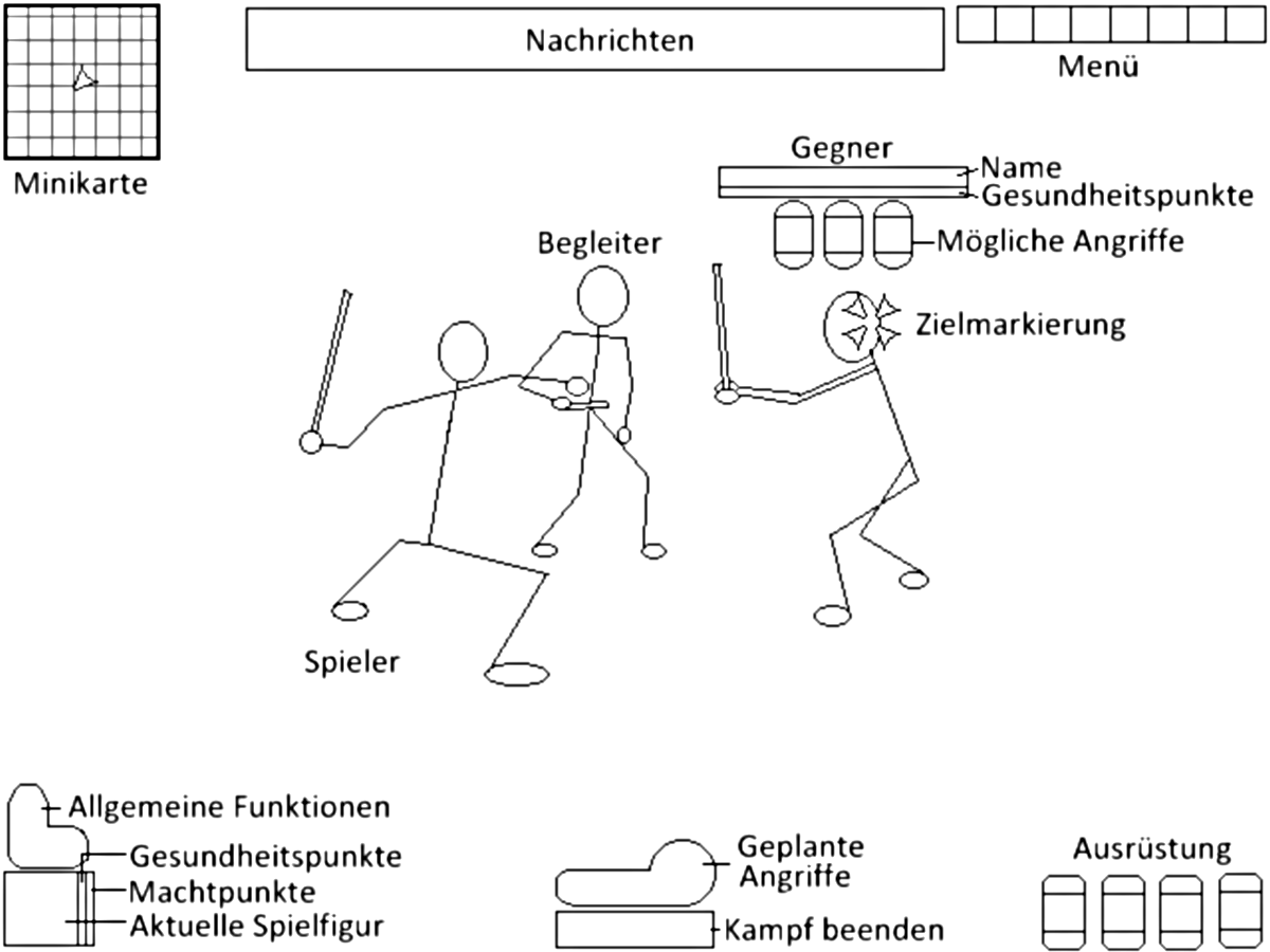 Interface of the video game Star Wars: Knights of the Old Republic